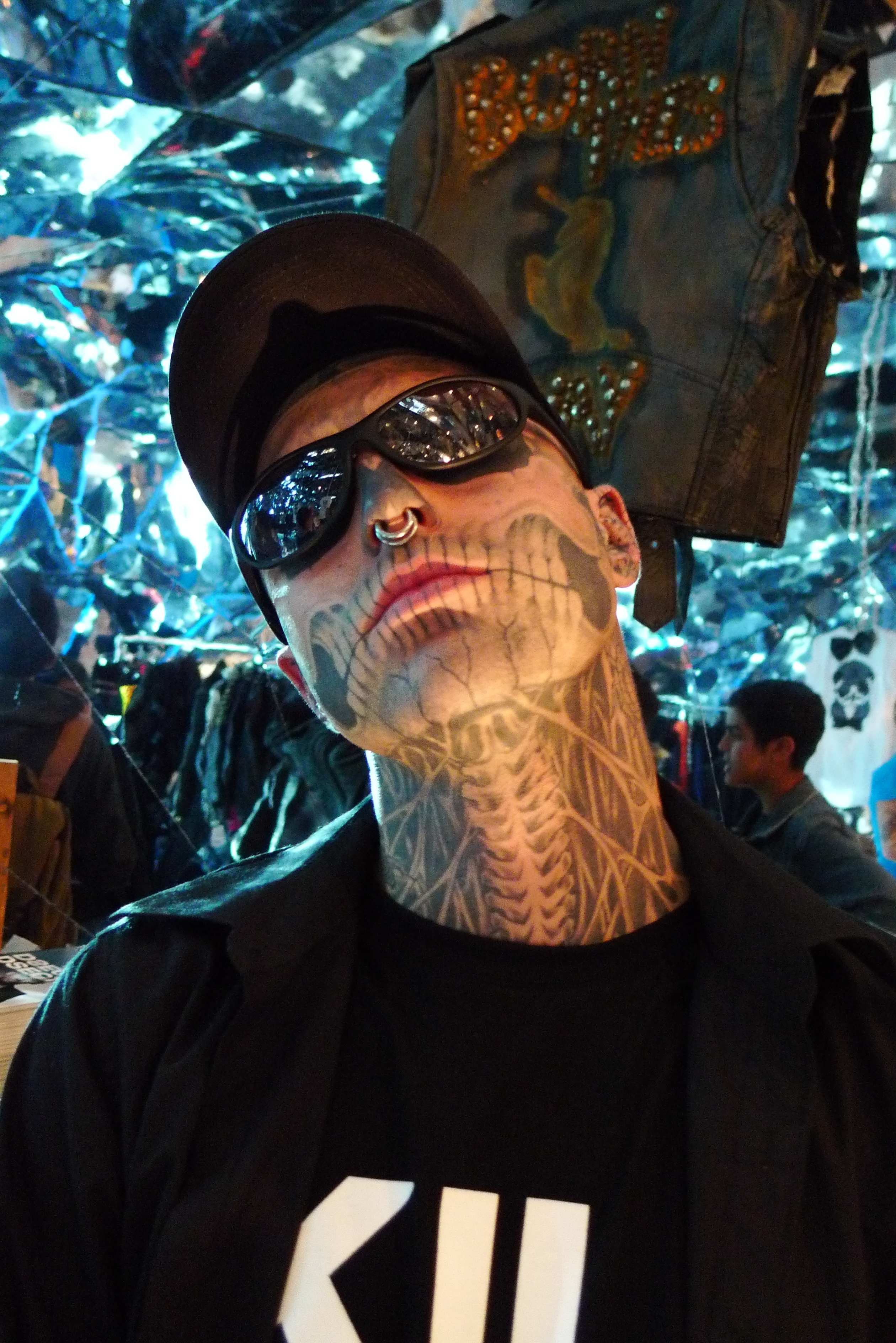 Rico Genest, Nicola Formichetti's pop-up shop, Sept. 17, 2011